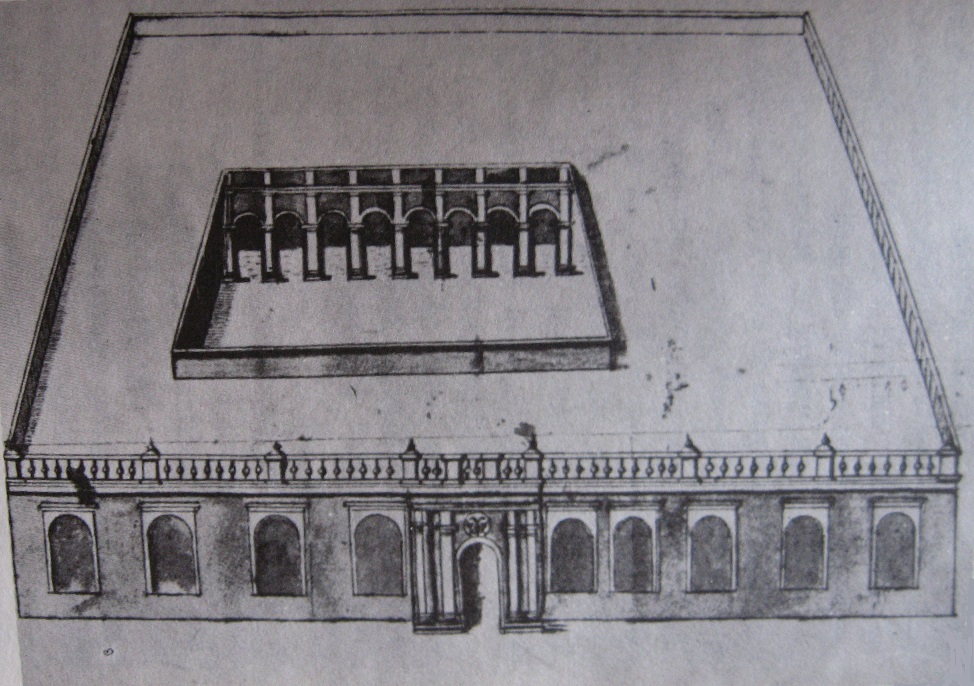 Palace of the governor of Banquibazar, the Ostend Company's factory in Bengal in the 1720s. When the Ostend Company was suspended in 1731, Banquibazar passed under the direct authority of Emperor Charles VI, ruler of the Austrian Netherlands. The double-headed imperial eagle, which topped the coat of arms of the Ostend Company, can be seen over the arched doorway. Anonymous contemporary drawing.